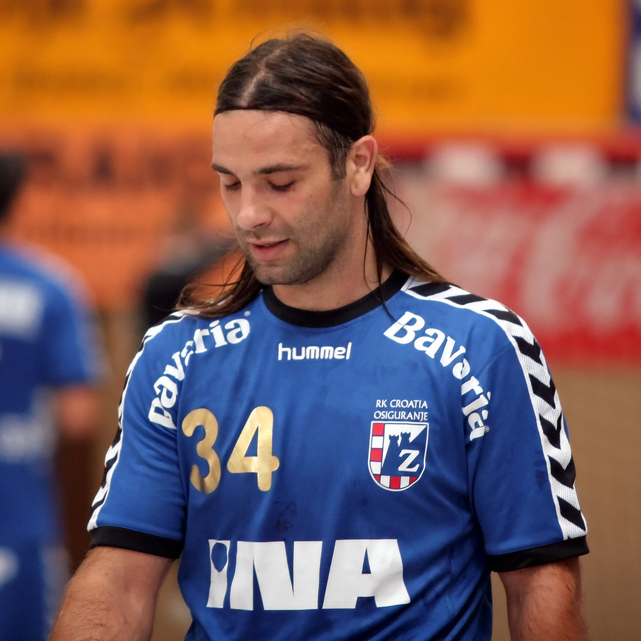 Ivano Balić, handball player from Croatia, playing for RK Zagreb, on August 22nd, 2009 in Ehingen (Germany), during the Schlecker Cup 2009.